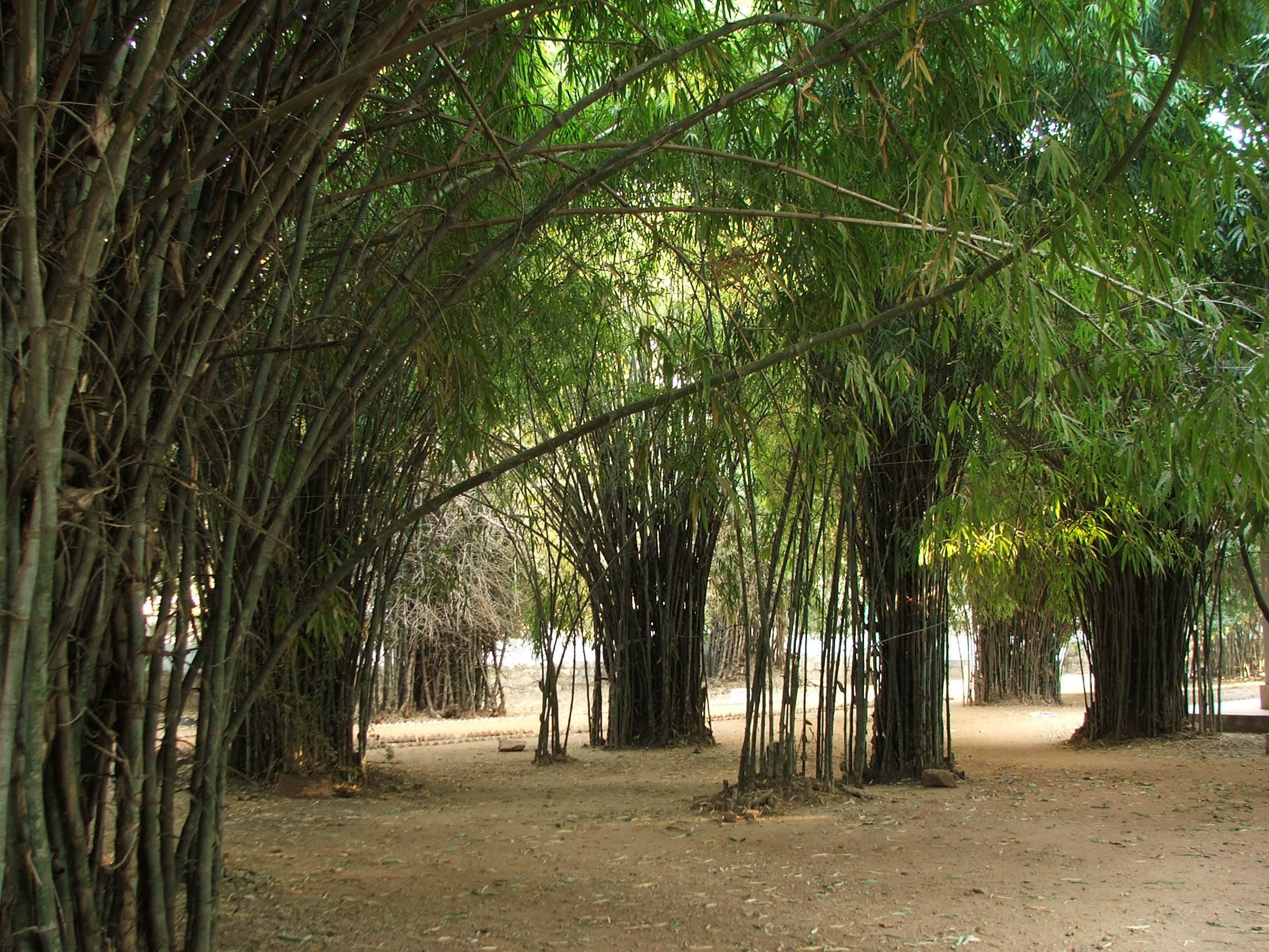 A small bamboo forest at the site of Venuvana Monastery, Rajgir, India. Venuvana (Pali language) translates as 'Bamboo forest' or 'Bamboo Grove'. Venuvana was the first monastery of the Buddhist Monastic Order, donated by King Bimbisara in the first year after Buddha's enlightenment.